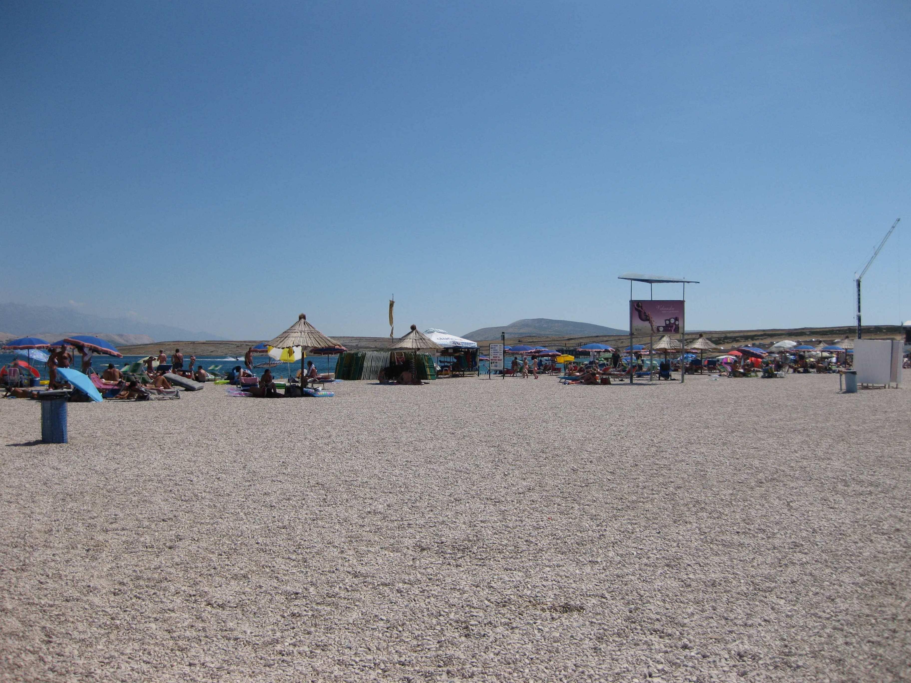 Zrce, Island of Pag